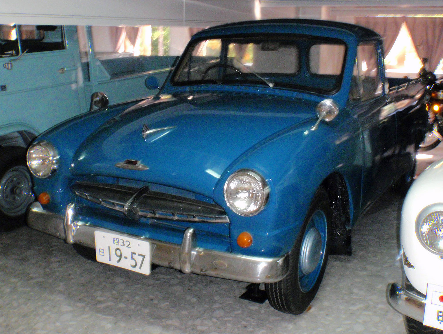 1957 Toyopet Masterline RR16 pickup at the Motorcar Museum of Japan